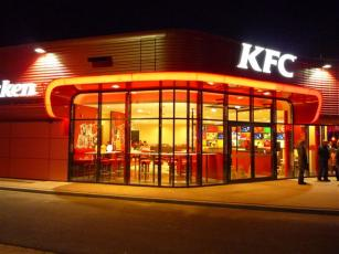 A KFC in Roermond